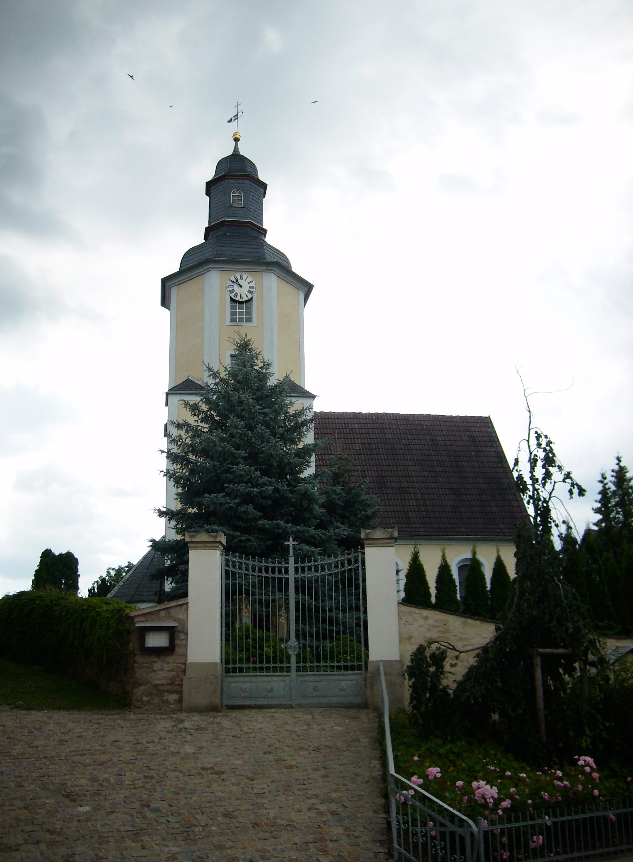 Church of the village of Pohlitz (Bad Köstritz, Greiz district, Thuringia)